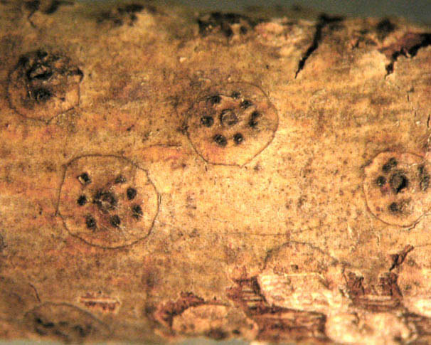 Allantoporthe tessella on Salix sp. (Russia)